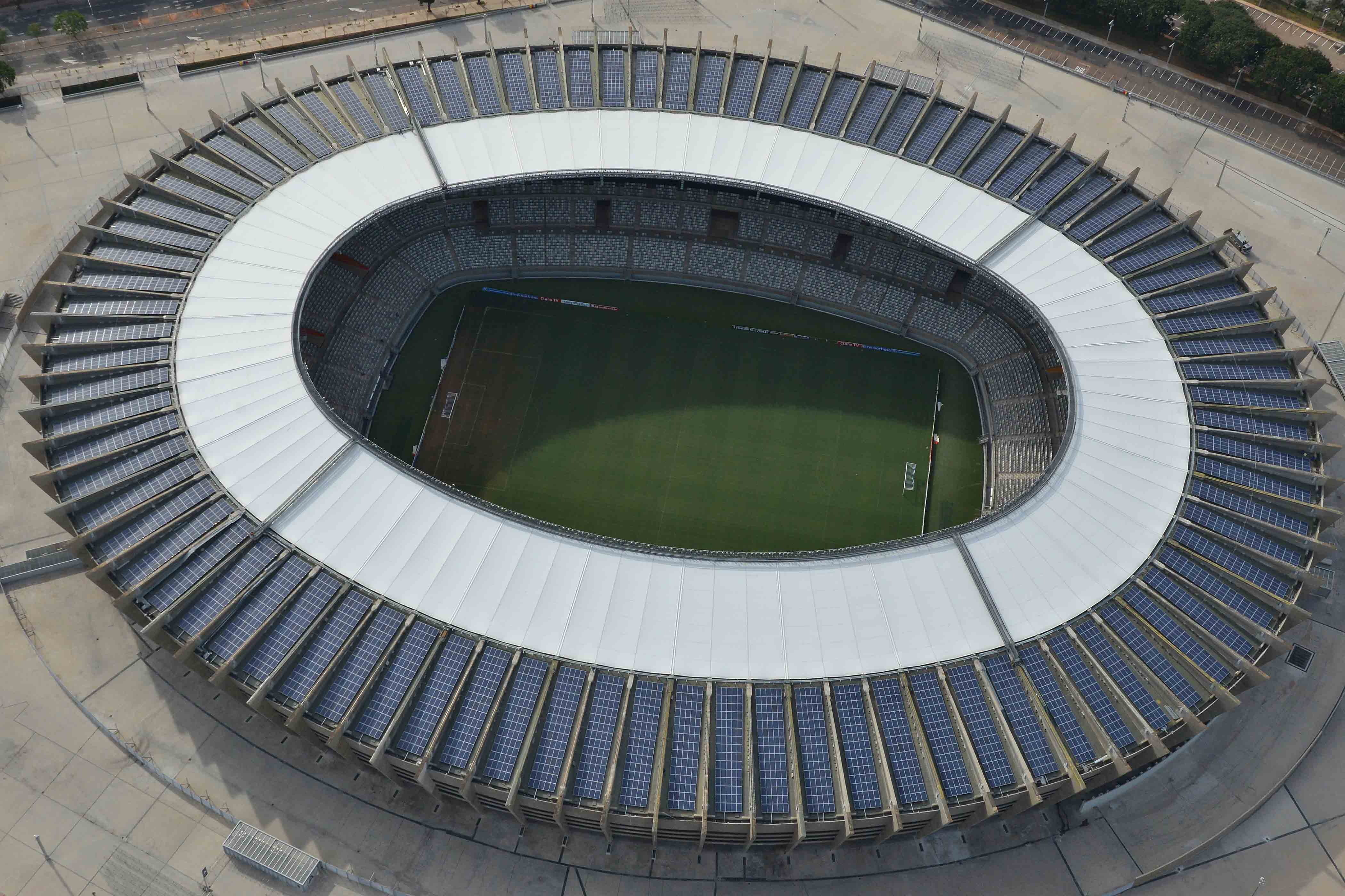 Usina Solar do Mineirao - Parceria entre Secopa e Cemig. Credito: Renato Cobucci/Imprensa MG Data: 16-05-2013 Local: Estadio Mineirao